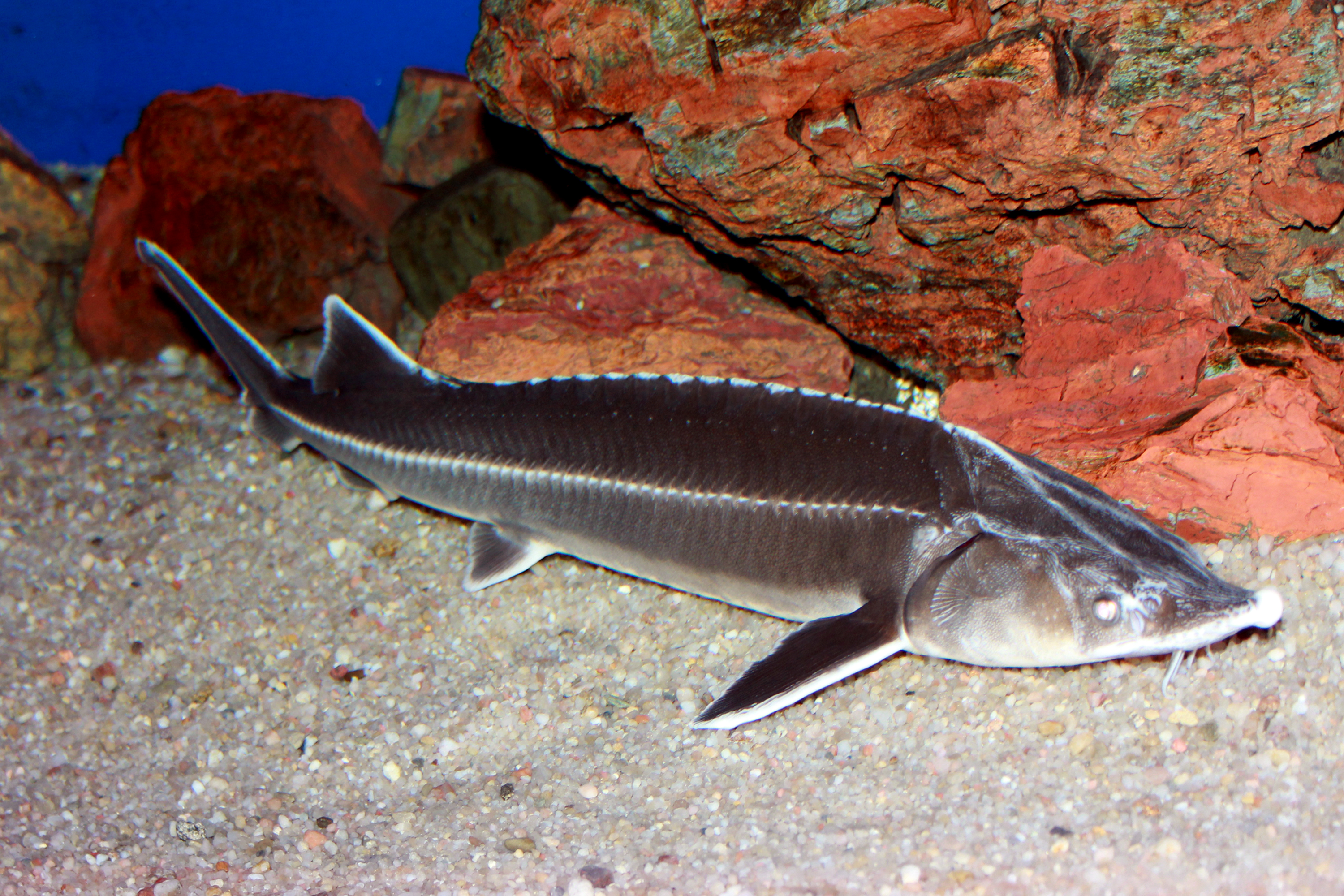 Fish Sterlet on exhibition Subaqueous Vltava, Prague 2011, Czech Republic